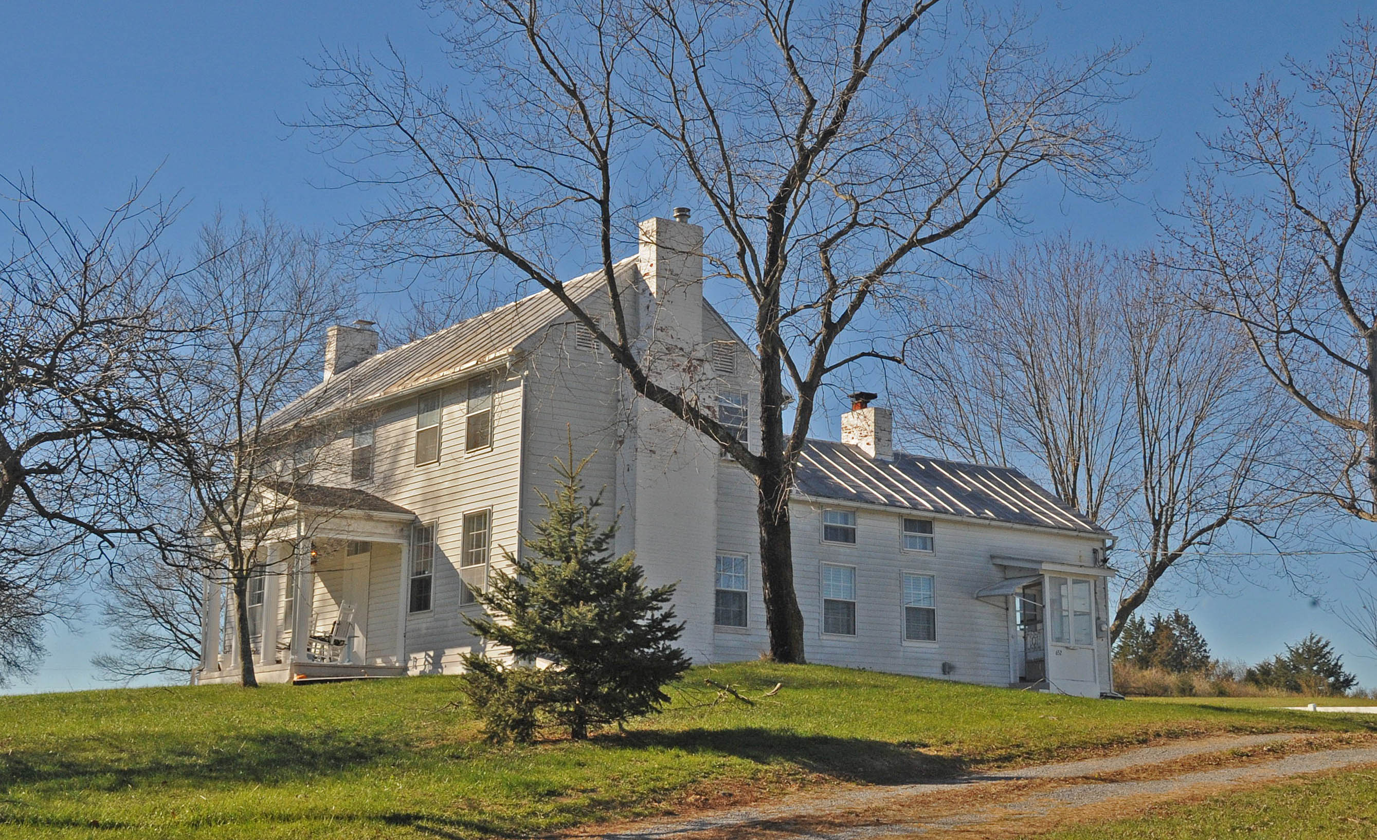 ESTABLISHED IN 1760 BY CAPT. JOHN LARRICK, A MEMBER OF THE VIRGINIA MILITIA FROM 1779 UNTIL 1782, THE YEAR OF HIS DEATH, RECEIVED THE PROPERTY THROUGH A 1760 LAND GRANT FROM THOMAS LORD FAIRFAX.